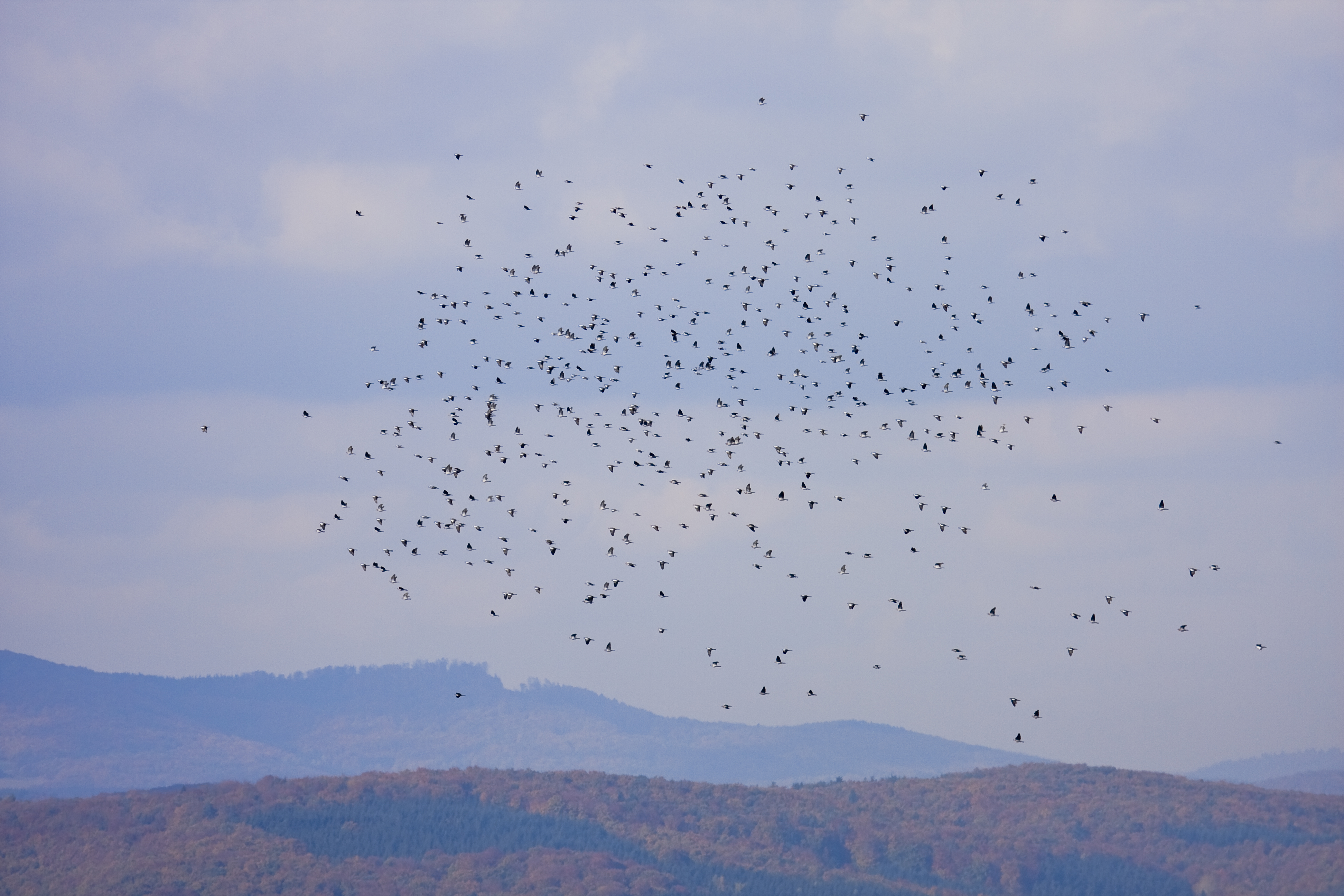 A flock of Wood Pigeon